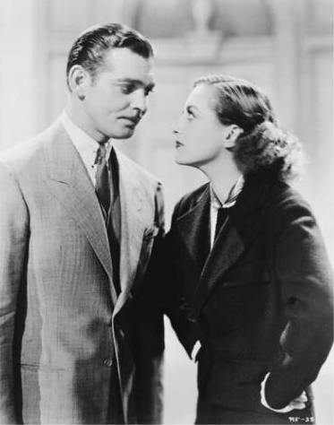 Clark Gable & Joan Crawford in the American romantic comedy-drama film Forsaking All Others (1934). See also film still. No copyright notice.